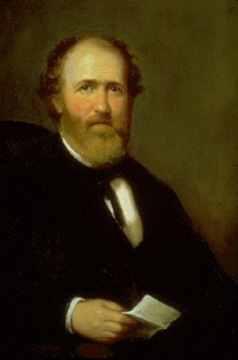 Indiana Governor Conrad Baker